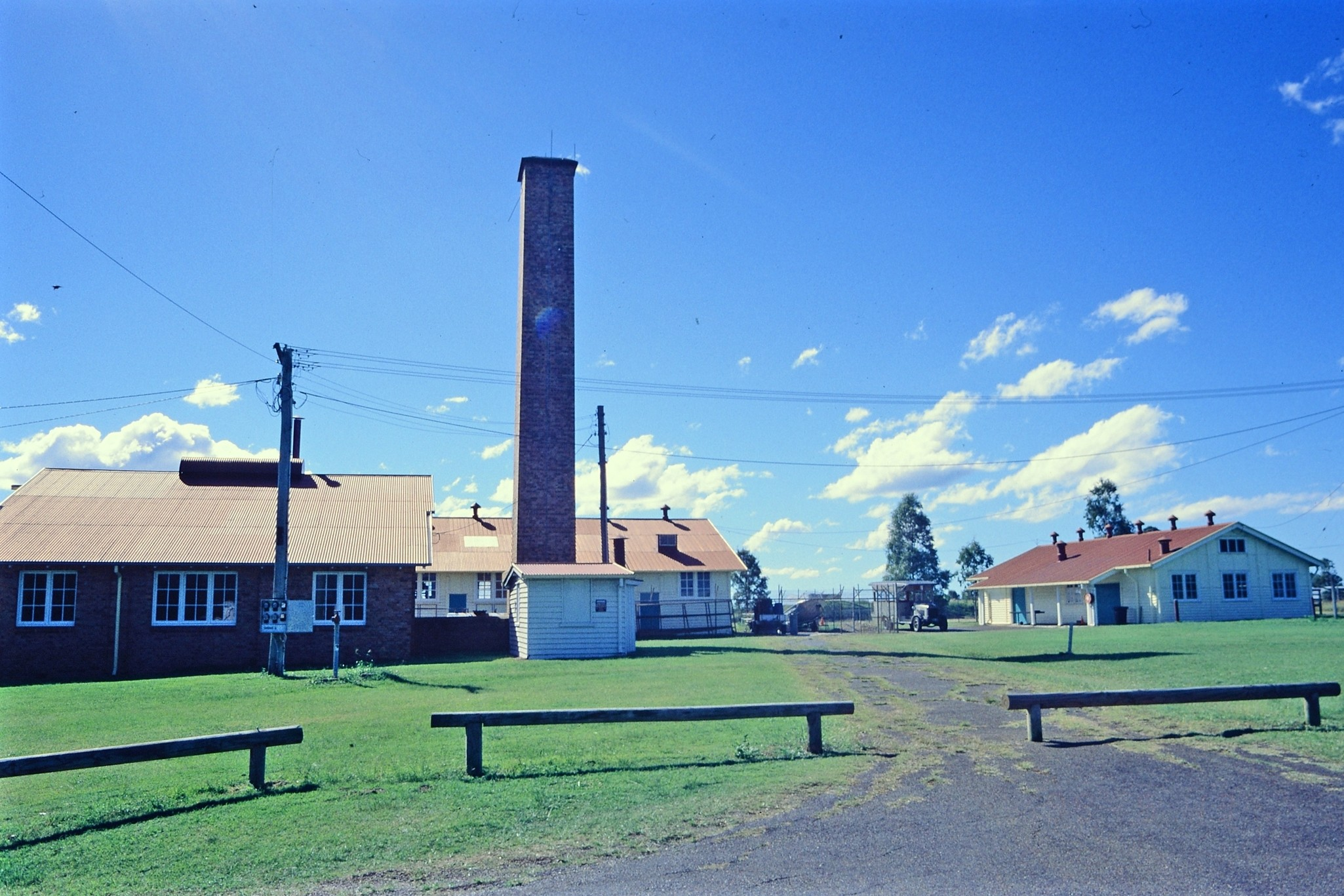 Lytton Quarantine Station (former) - site view